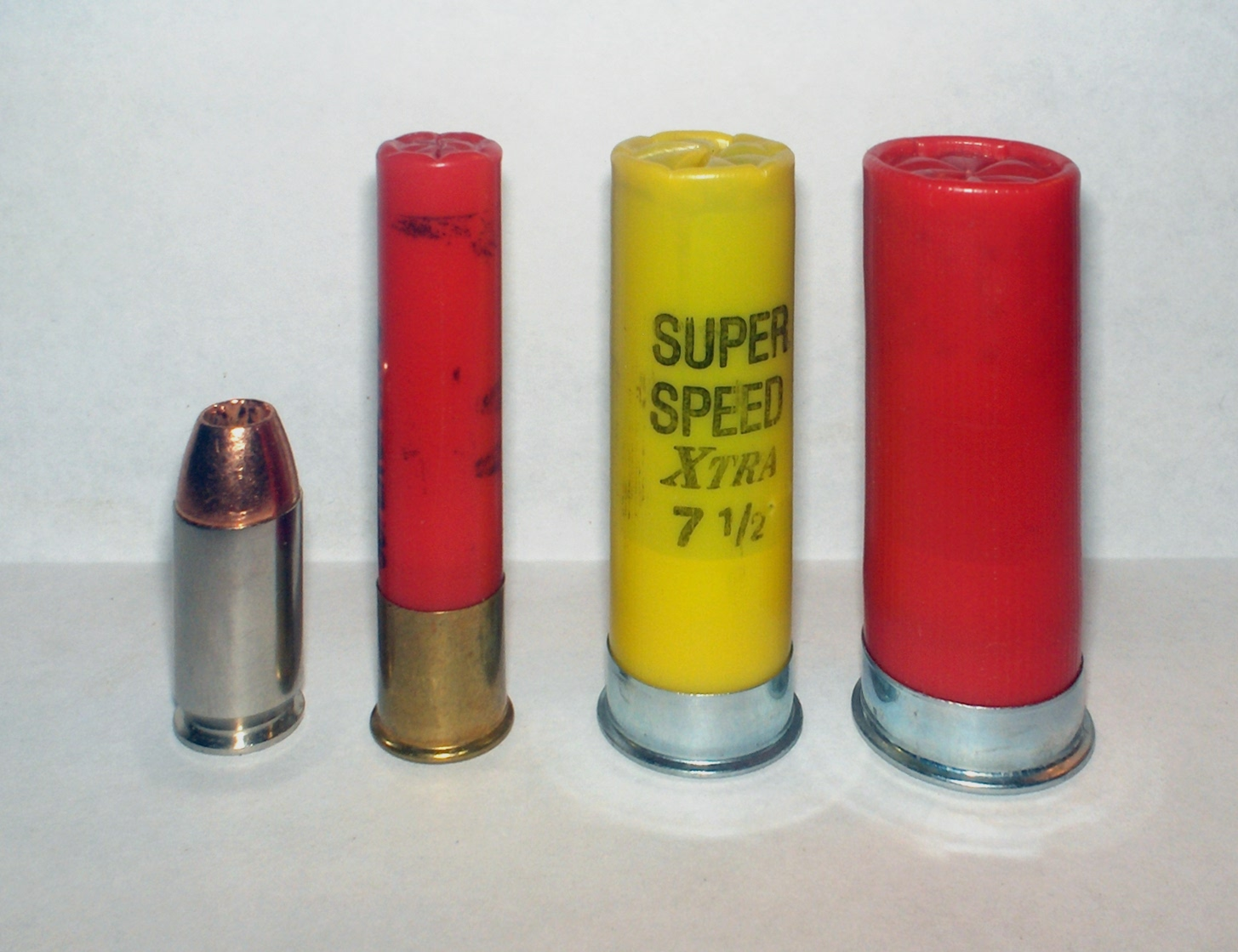 This is a photograph of (from left-right) .45 Auto, .410 bore shot-shell, 20 gauge shot-shell, 12 gauge shot-shell.